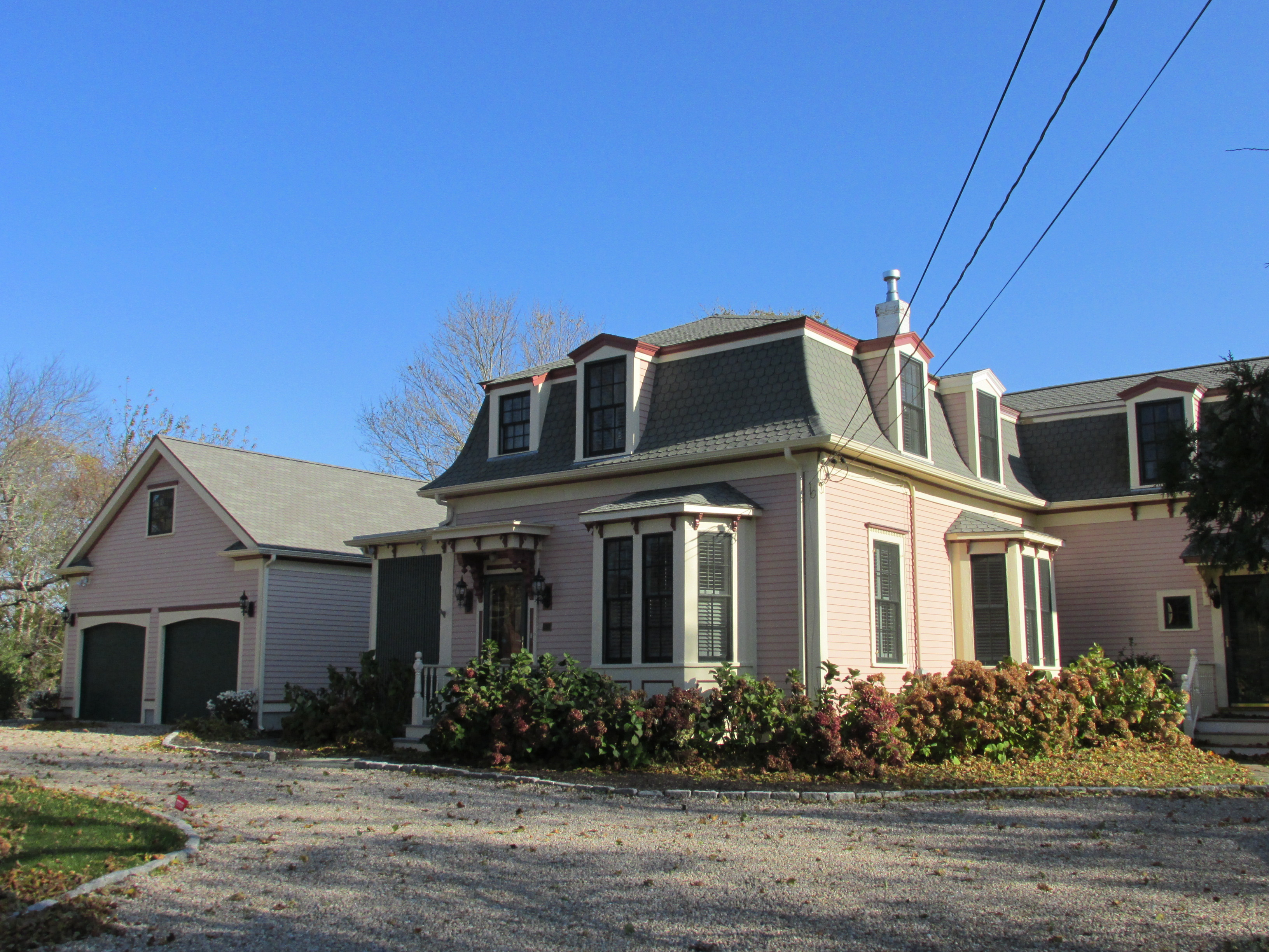 Josiah Whitman House, West Barnstable Massachusetts